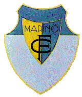 Marino Football Club shield, founded in 1905.